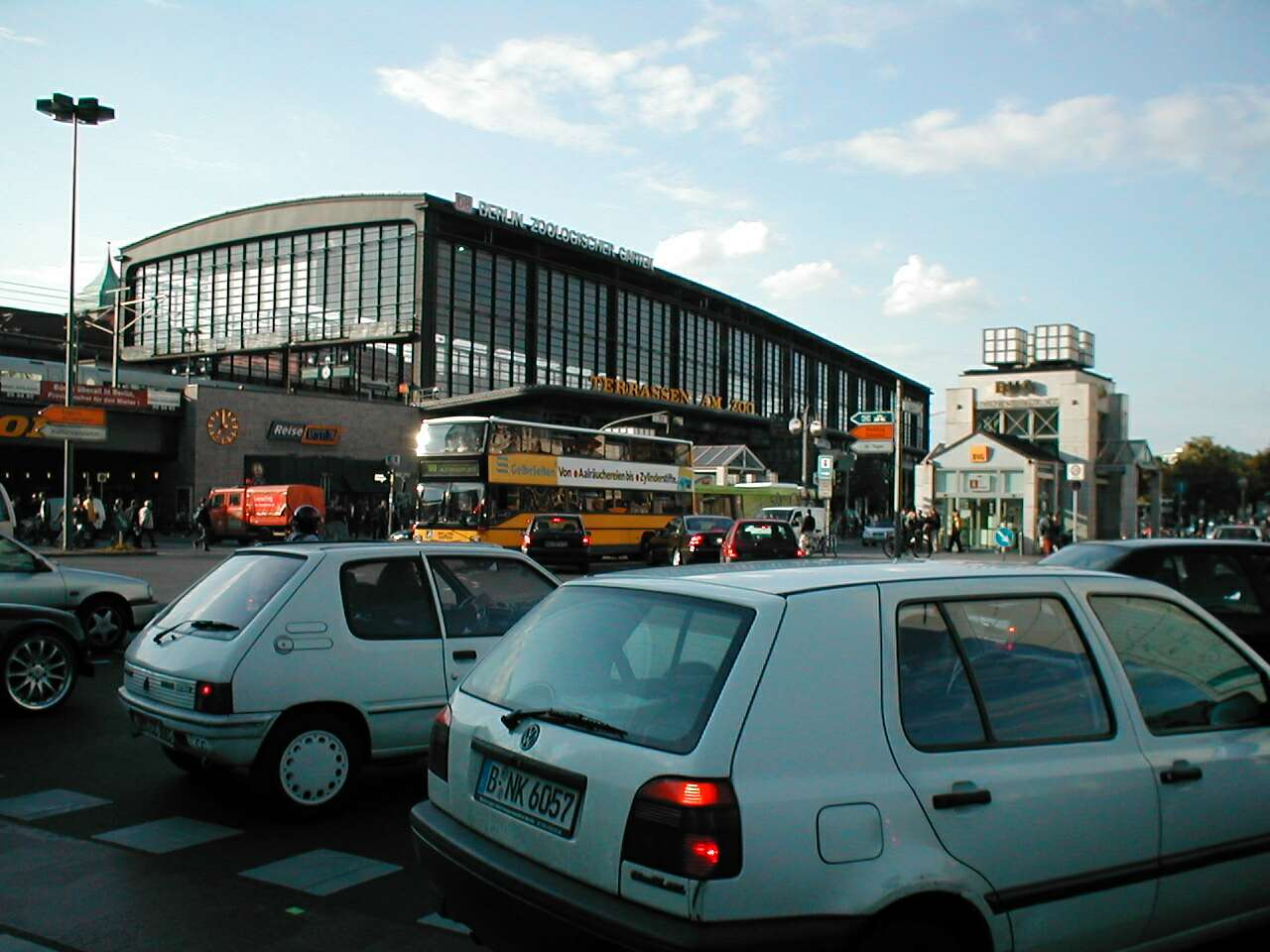 the train hall of the station Zoologischer Garten in Berlin